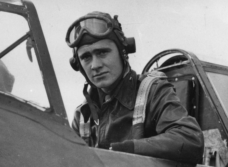 Second Lieutenant William T. Whisner of the 487th Fighter Squadron, 352nd Fighter Group, which was stationed at Bodney air base between July 1943 and November 1945. 1 January 1944.